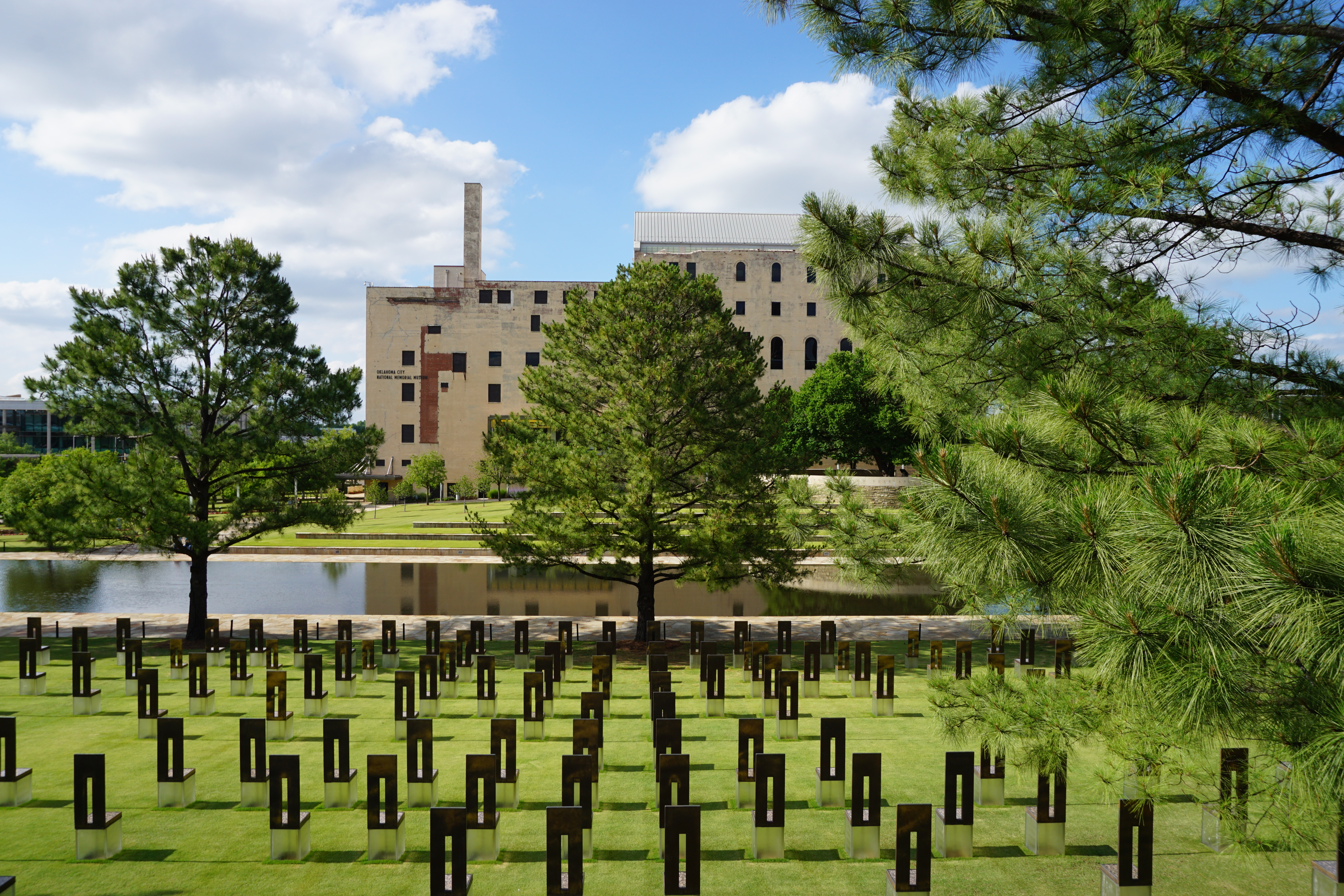 The Oklahoma City National Memorial in Oklahoma City, Oklahoma (United States).